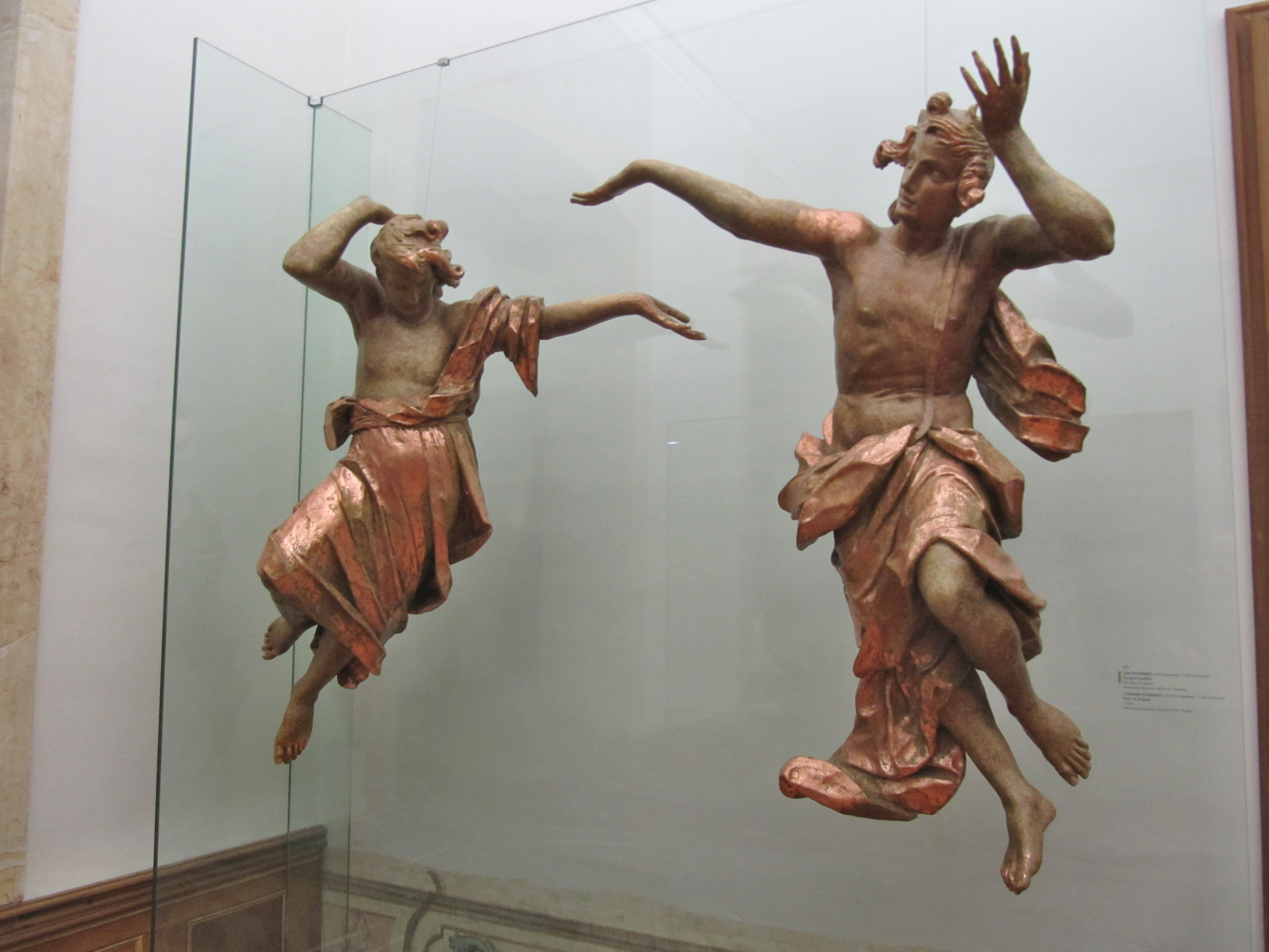 Olomouc, Czech Republic. Archdiocesan Museum.